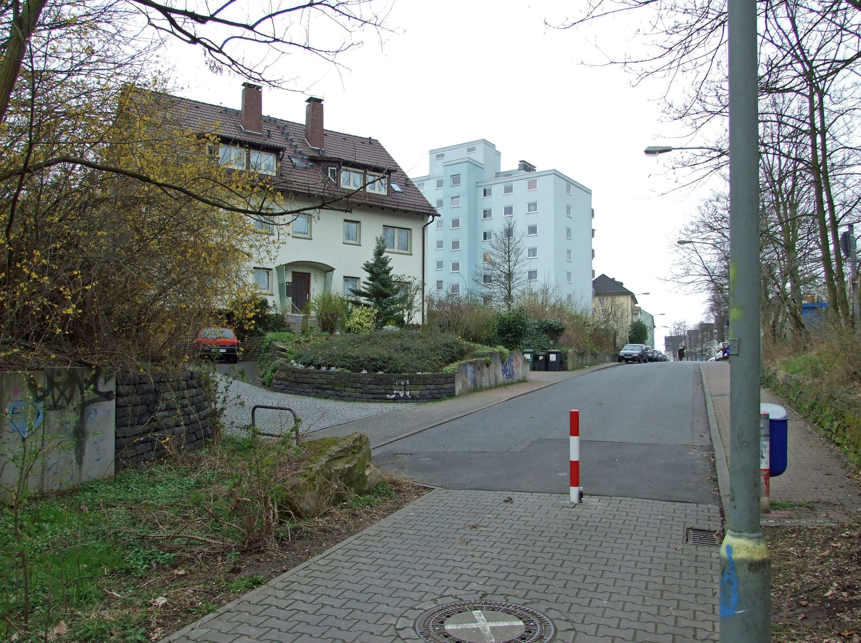 Path for pedestrians between Wilhelmshoher Strasse in the borrough of Seckbach and Berger Strasse in the borrough of Bornheim in Frankfurt, Hesse, Germany